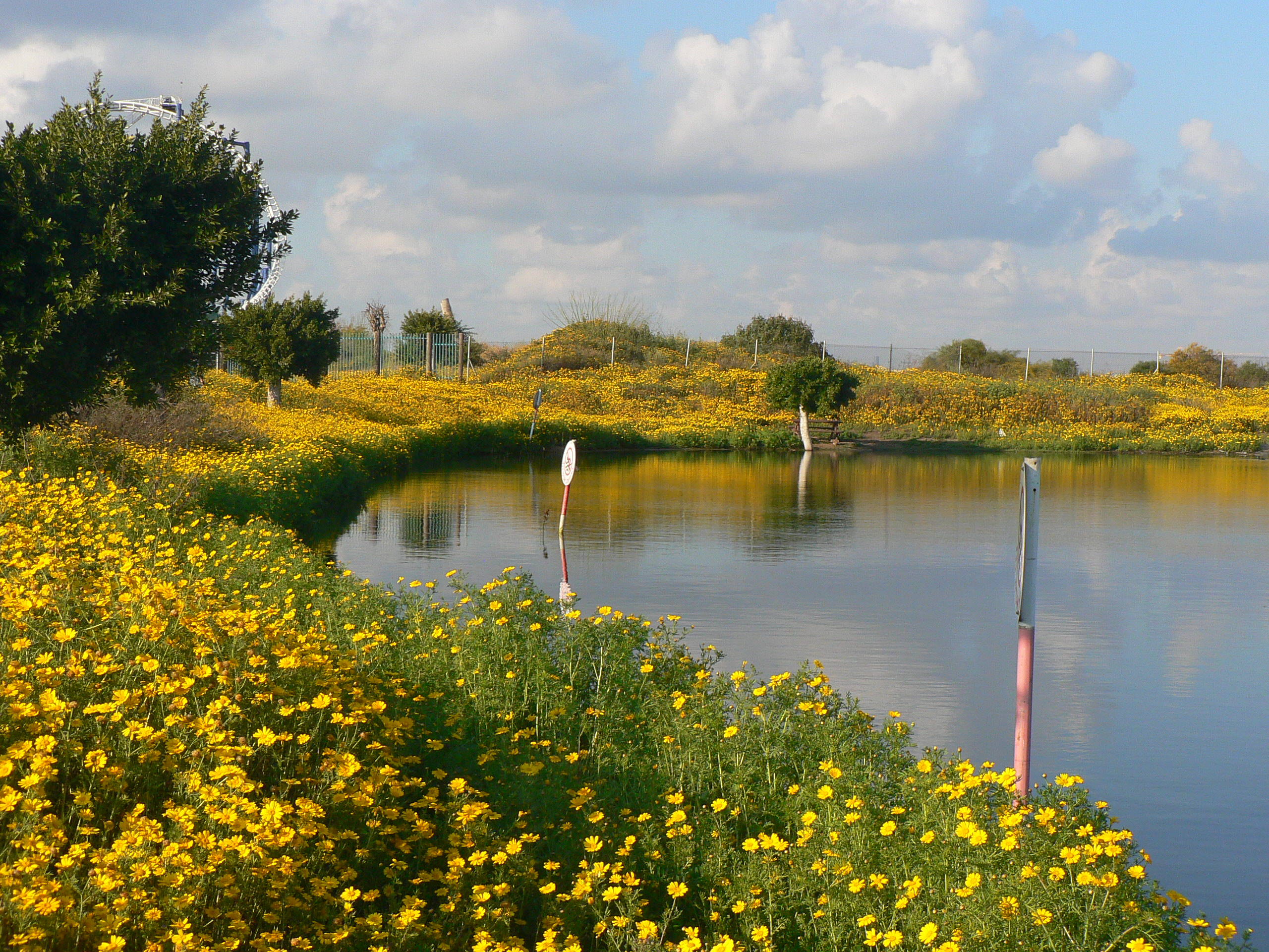 Rishon LeZion, Israel - The Lake's Park with Glebionis coronaria (aka Chrysanthemum coronarium) yellow carpet